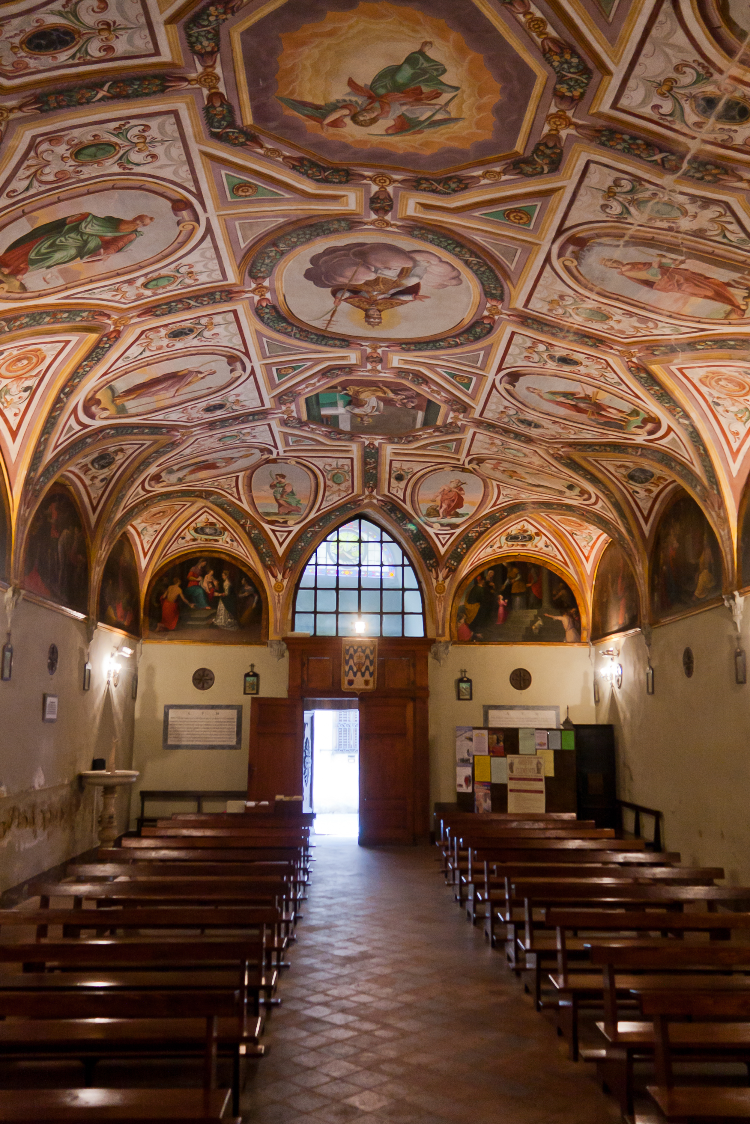 San Lino, Volterra, Inner view